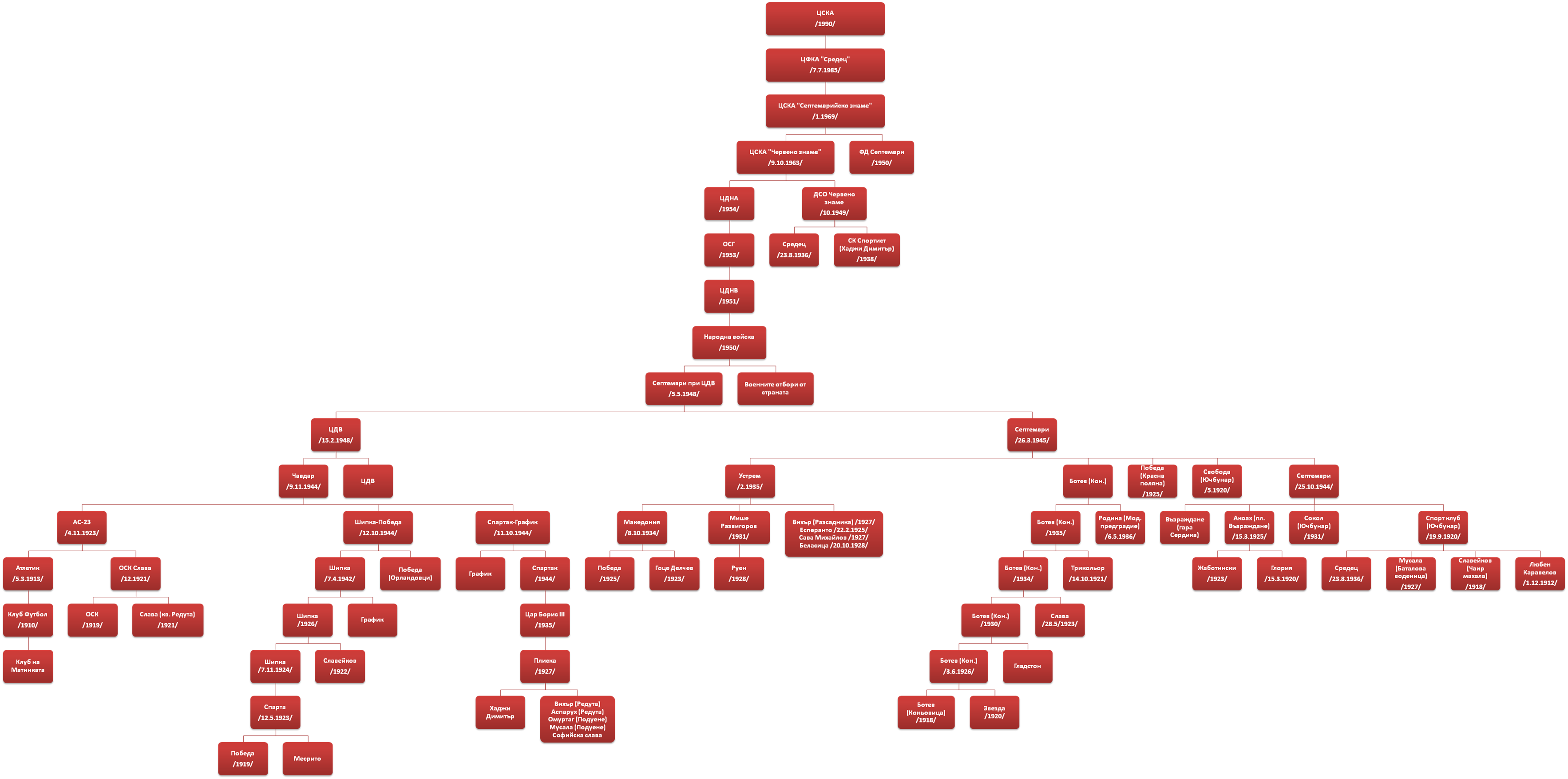 Sheme of PFC CSKA Sofia's roots. The sheme is based on sheme of Hristo Hristov(chicho Graf) created on 4 march 2005 as seen on BNT and PFC CSKA Sofia's movie "Red and gold".